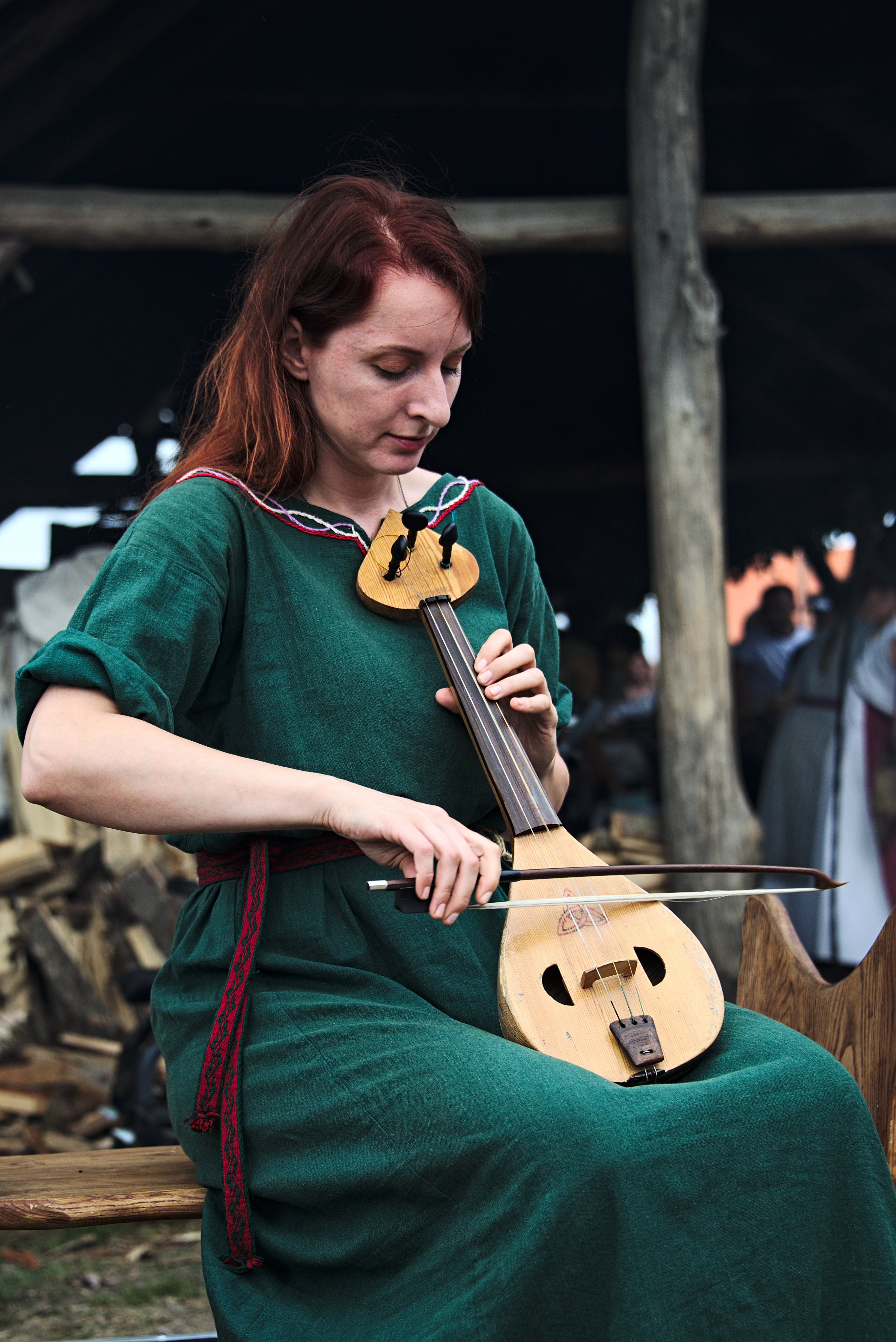 Katarzyna Bromirska from Polish folk band Percival in Wiking and Slavic Festival in Wolin 2018